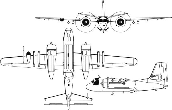 3 views of the Grumman S-2 Tracker